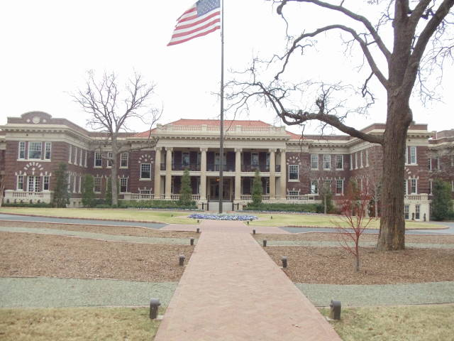 Parkland Hospital